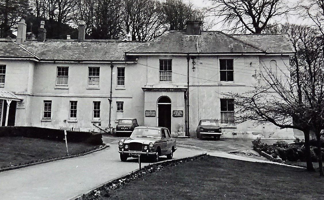 Hawkmoor House, Hawkmoor Hospital, Bovey Tracey, Devon, England. Circa 1950.